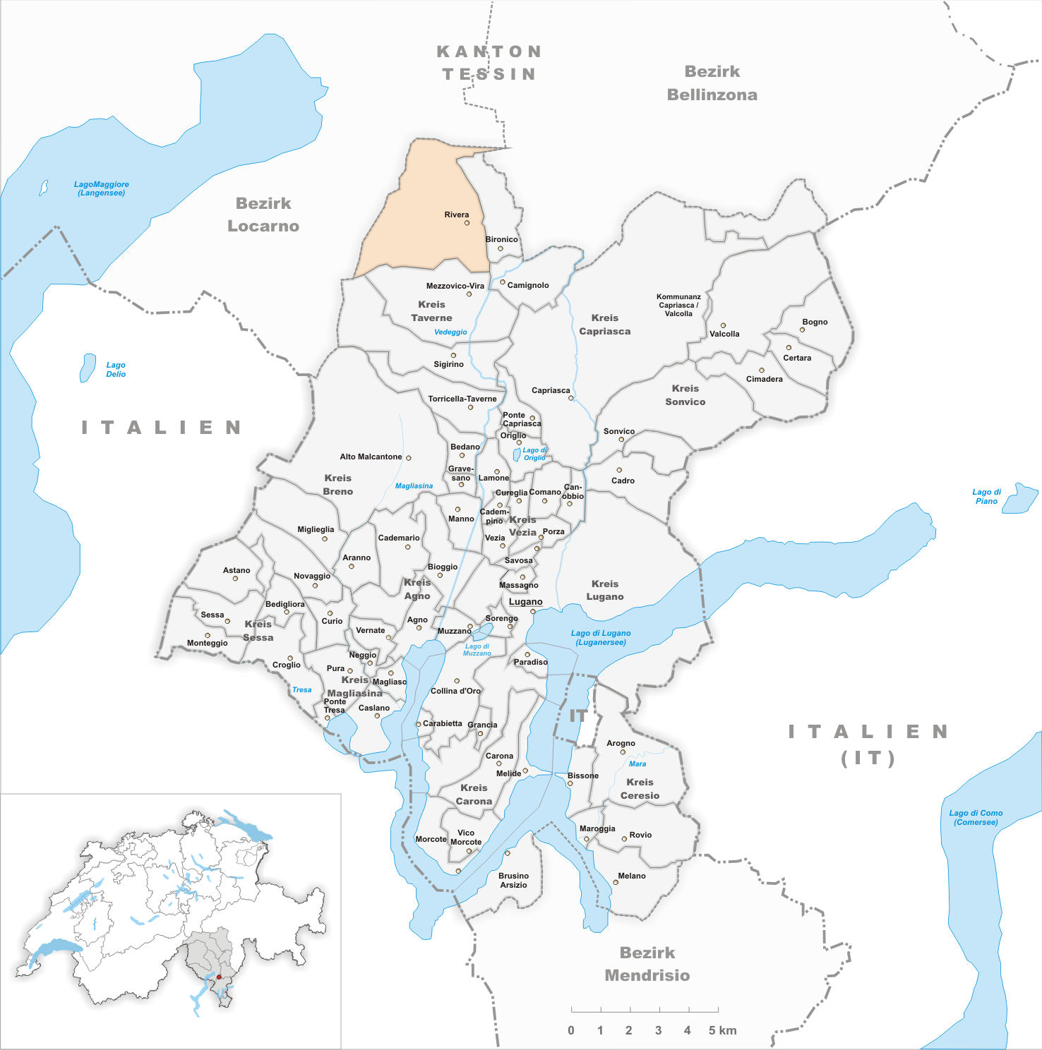 Municipality Rivera